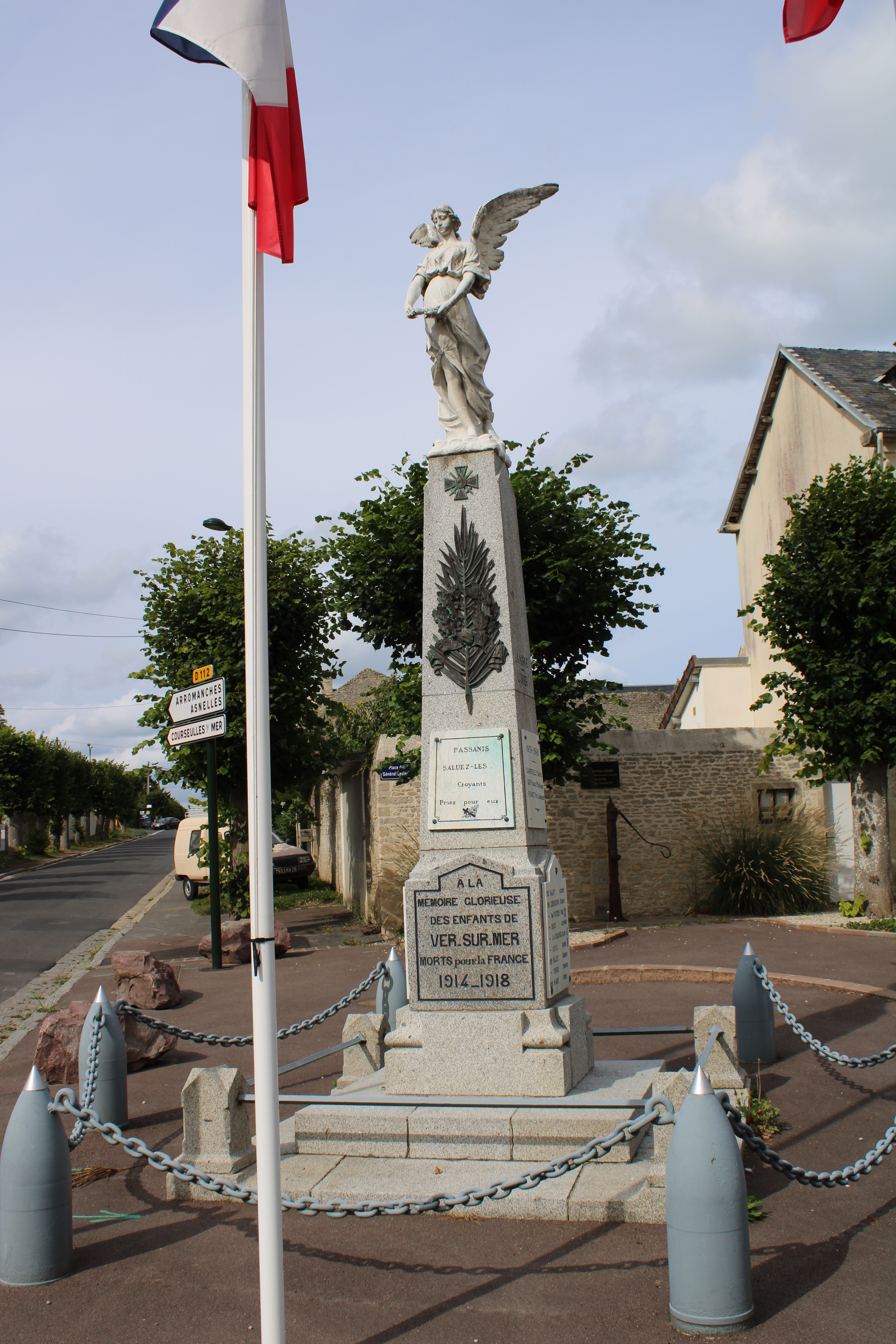 Ver-sur-Mer war memorial.